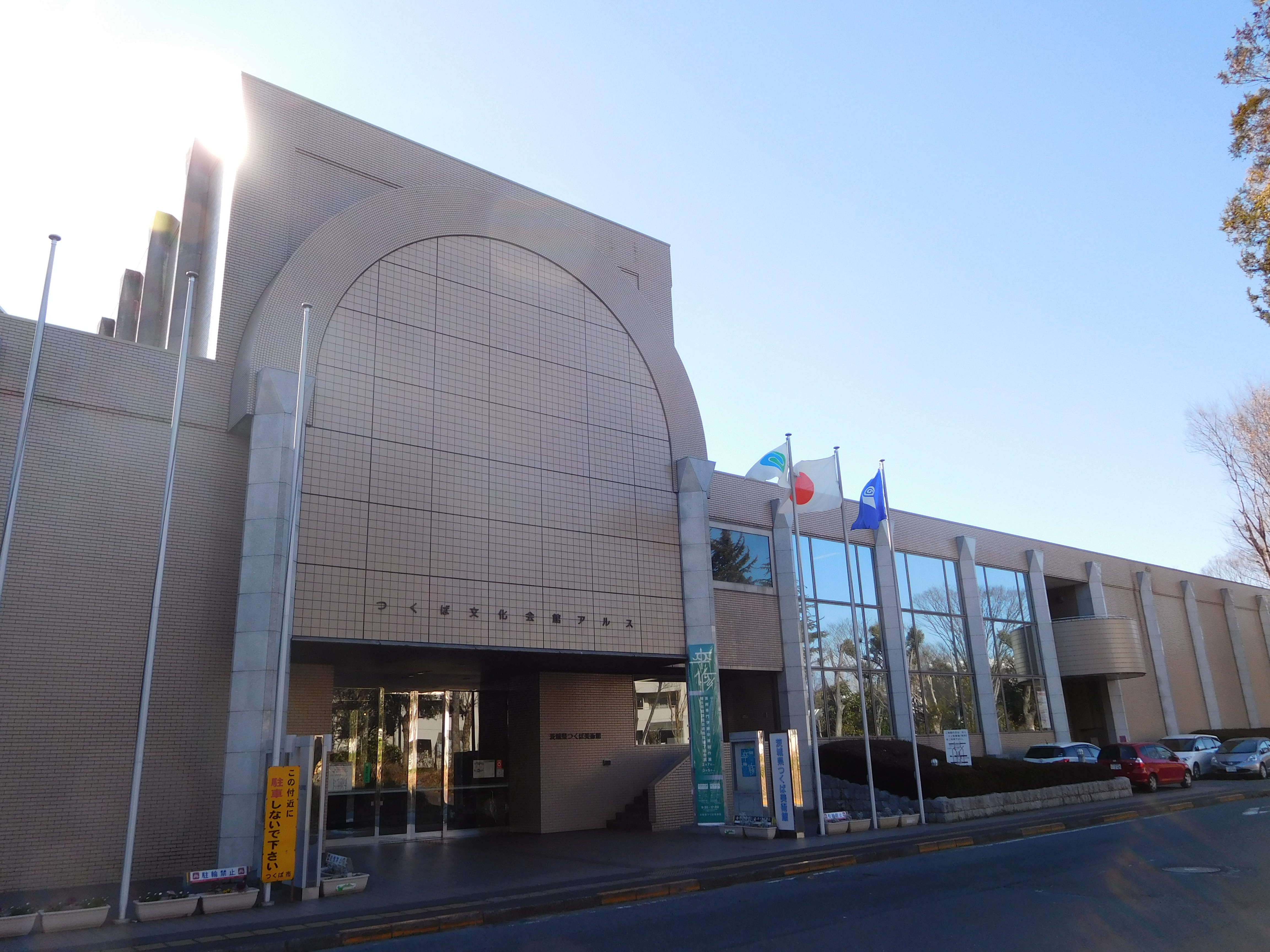 This is a photo of Tsukuba Cultural Hall ARS.I took this photograph from the Azuma 2 house side. It has Ibaraki prefectural Tsukuba Art Museum & Tsukuba Public Library.